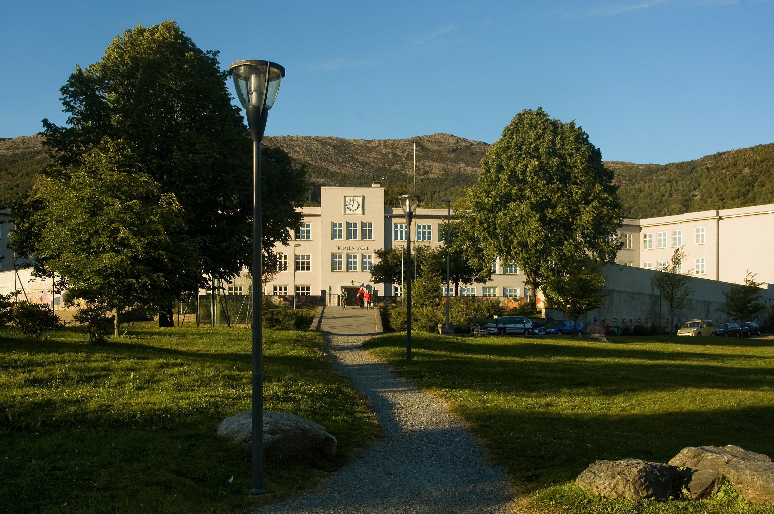 Fridalen skole, an elementary school in Årstad borough, Bergen, Hordaland county, Norway.